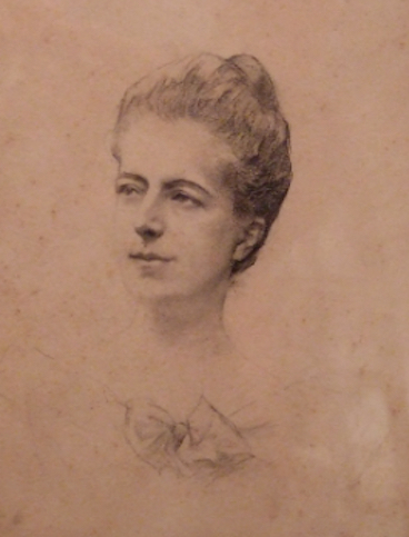 Marie-Dupuytrem-Balsan, 1844-1902